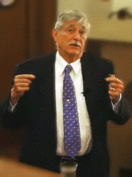 Halton Arp, 21st October 2000, University College London, speaking at a public meeting, New Universe for a New Millennium. Adjusted version of :image:Halton-arp.jpg by User:Iantresman. The contrast and brightness have been increased, and a despeckling filter has been applied to the original image by User:Reuben.